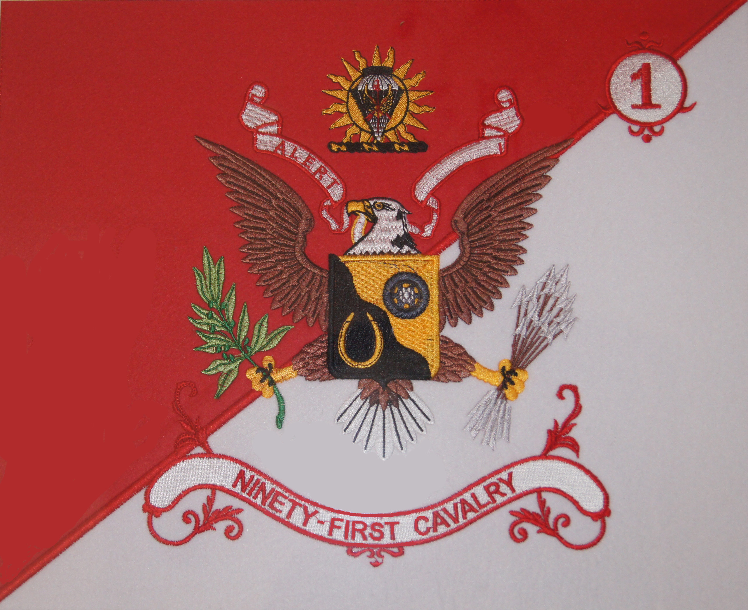 1st Squadron, 91st Cavalry Regiment Guidon